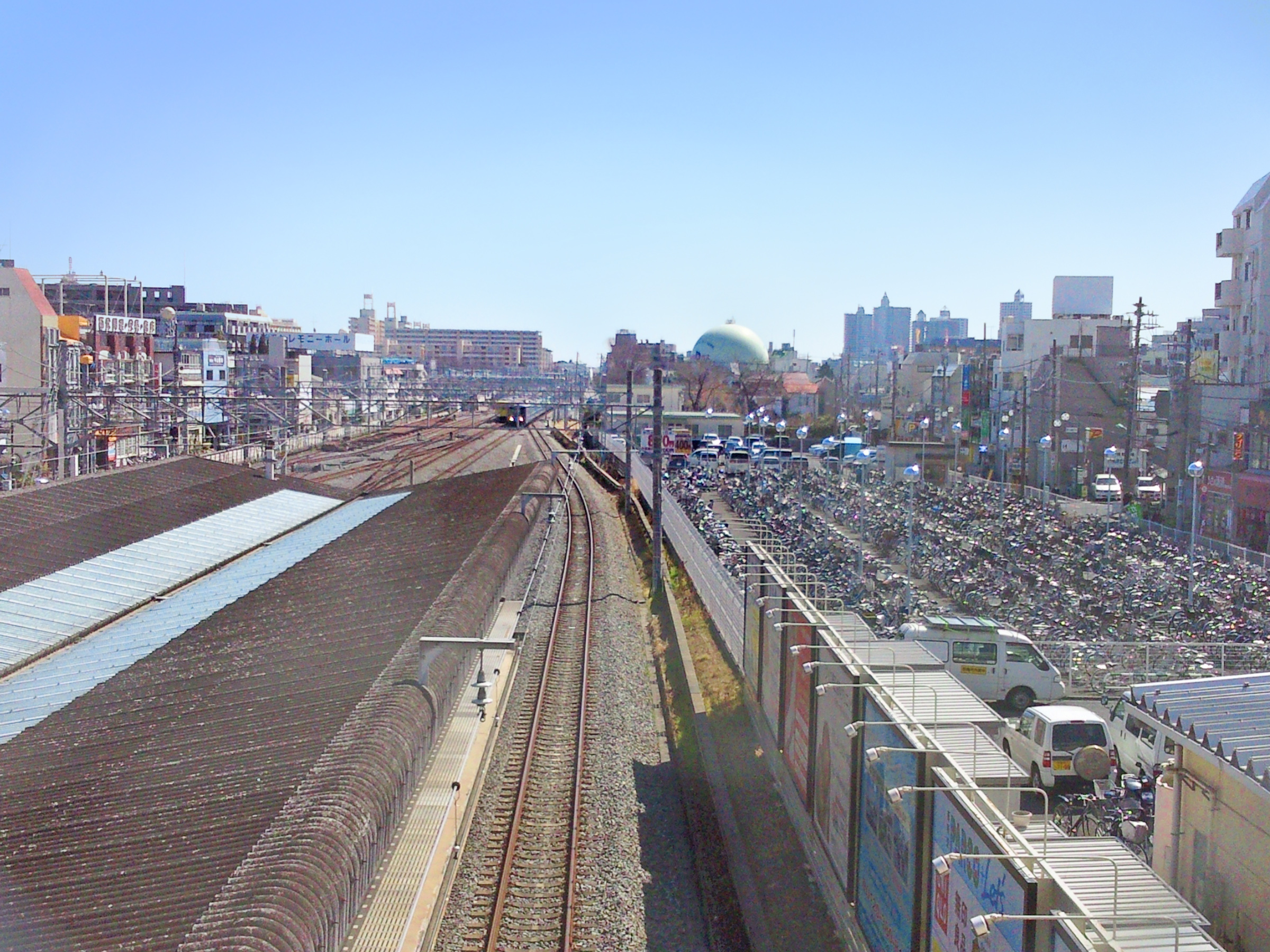 Seeing southeast from a window on the second floor level at Shin-Tokorozawa Station.